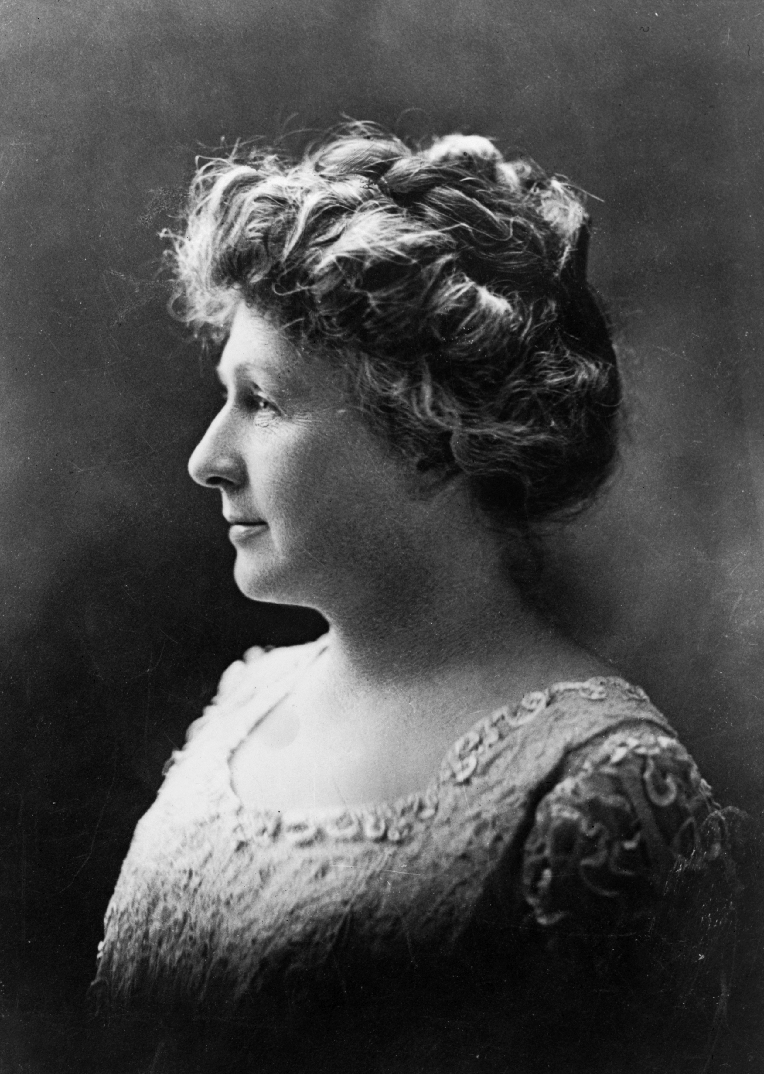 Mrs. Annie Jump Cannon, head-and-shoulders portrait, left profile. Library of Congress permalink.